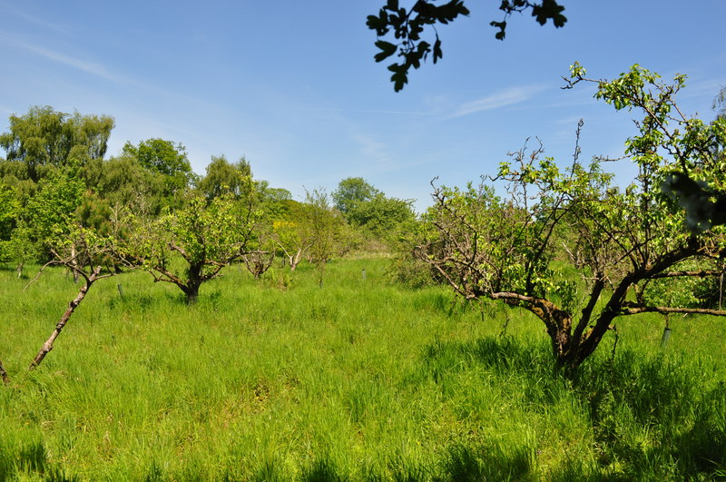 Remains of the Orchard, near to Wheatacre, Norfolk, Great Britain. The apple orchard has been left to nature. Two woodland trust woods are within a mile of each other, this is the larger and older Three Gates Farm. The wood is a real mix with poplar wind breaks, broadleafed oaks and horse chestnuts as well as pear and apple trees because the site was an orchard. The woodland trust got the site in the 1990s and planting began.